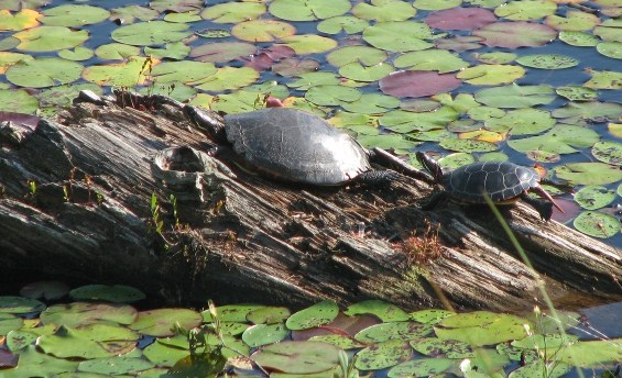 female and juvenile Midland Painted Turtles (Chrysemys picta marginata) basking in Algonquin Provincial Park, Ontario, Canada